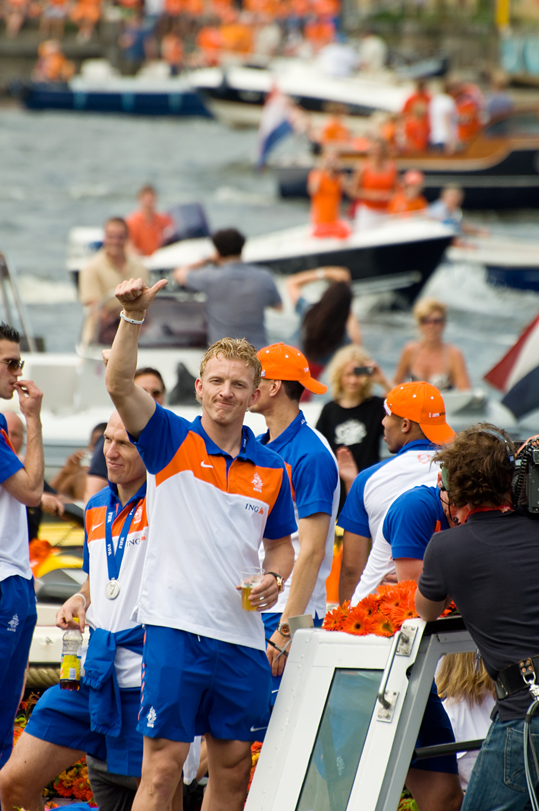 The Dutch national football team is having a parade in Amsterdam to celebrate the World Cup soccer action and making it to the final. This is Dirk Kuyt.